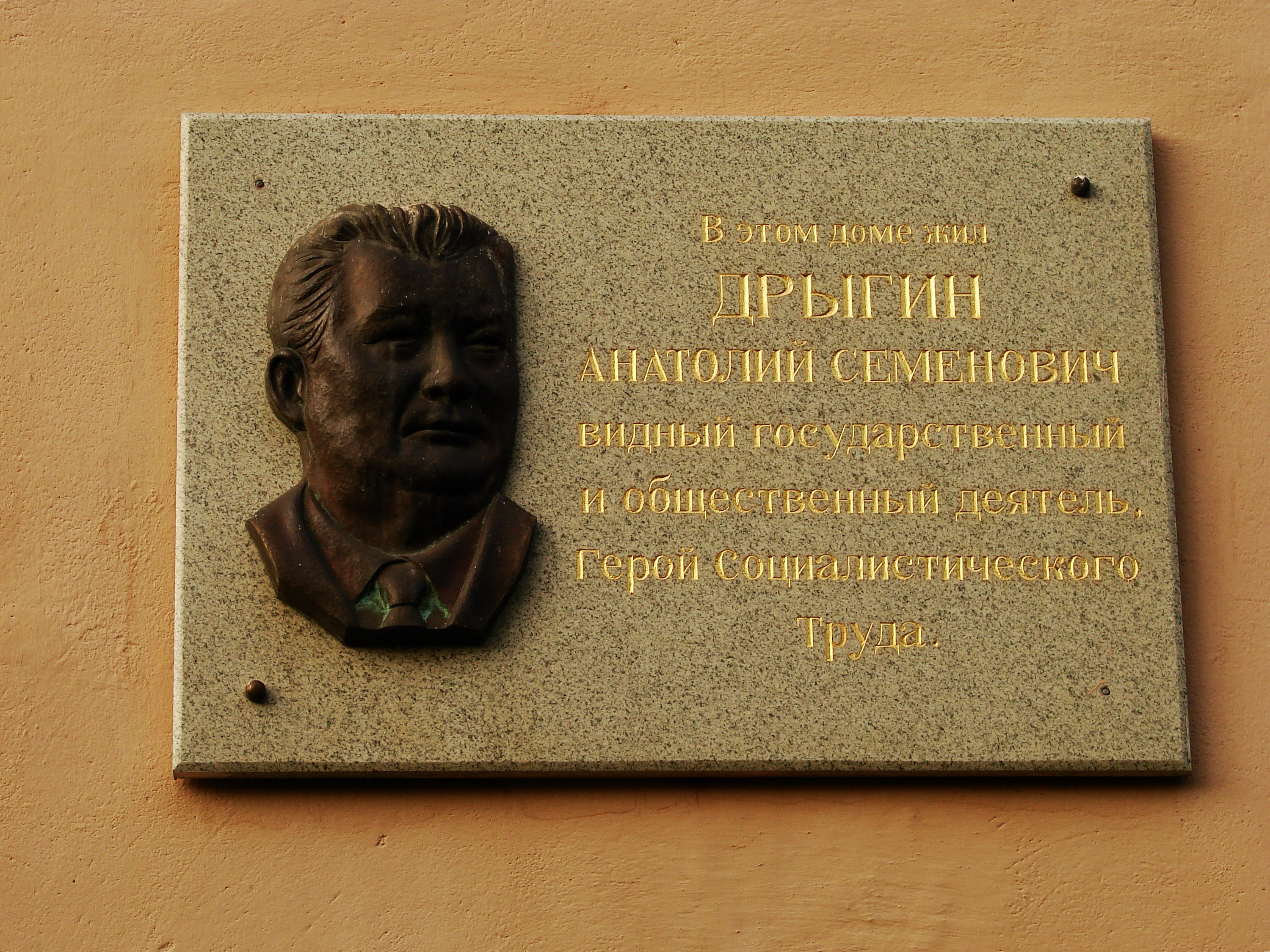 Russia, Vologda, Plaque on the Oktiabrsky street 10